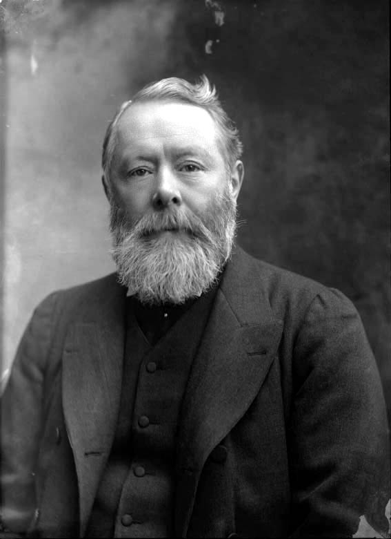 Portrait of Arthur Kinnaird, football player and pioneer.